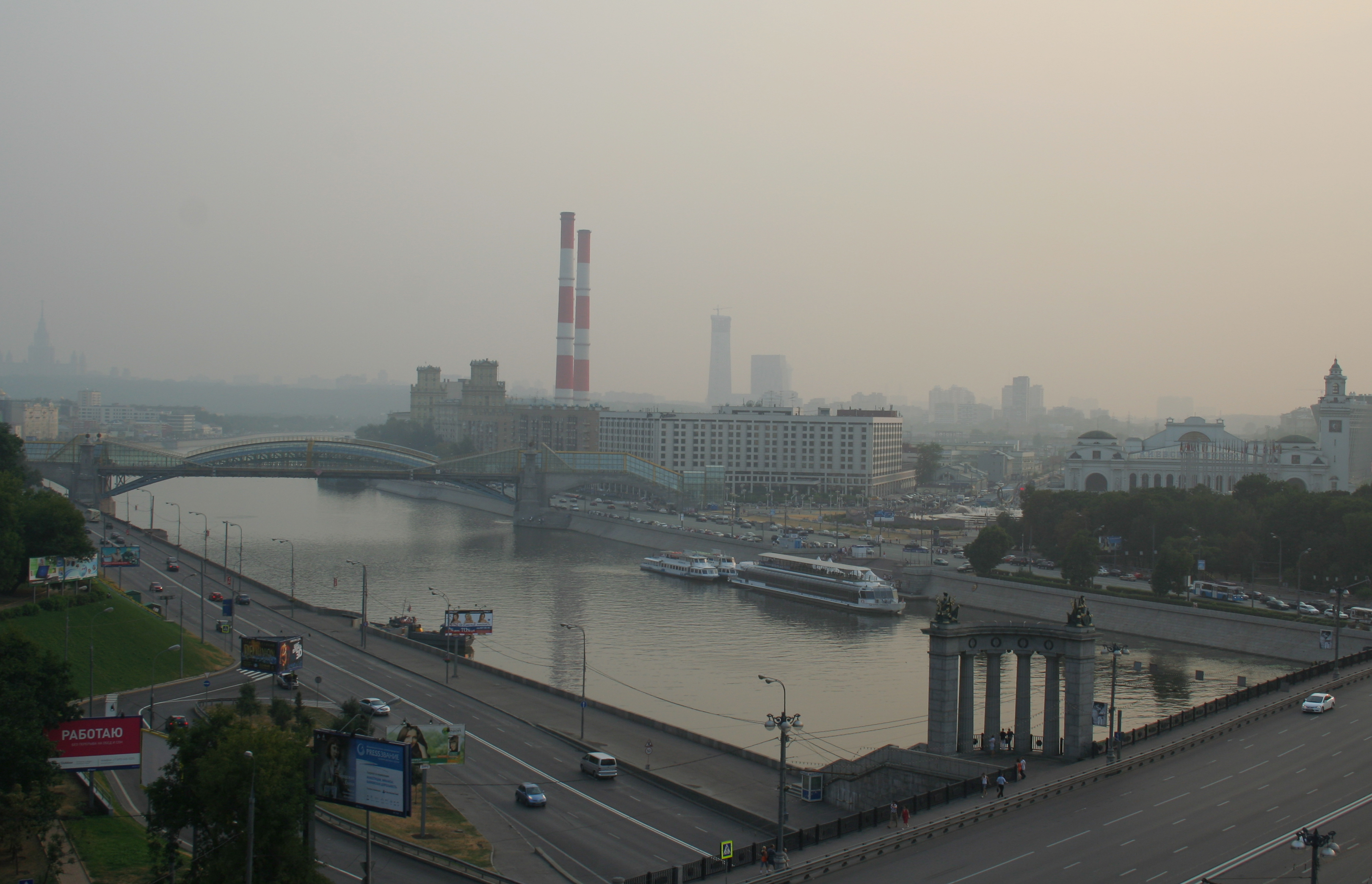 Smog over Moscow after wildfires in the summer of 2010.